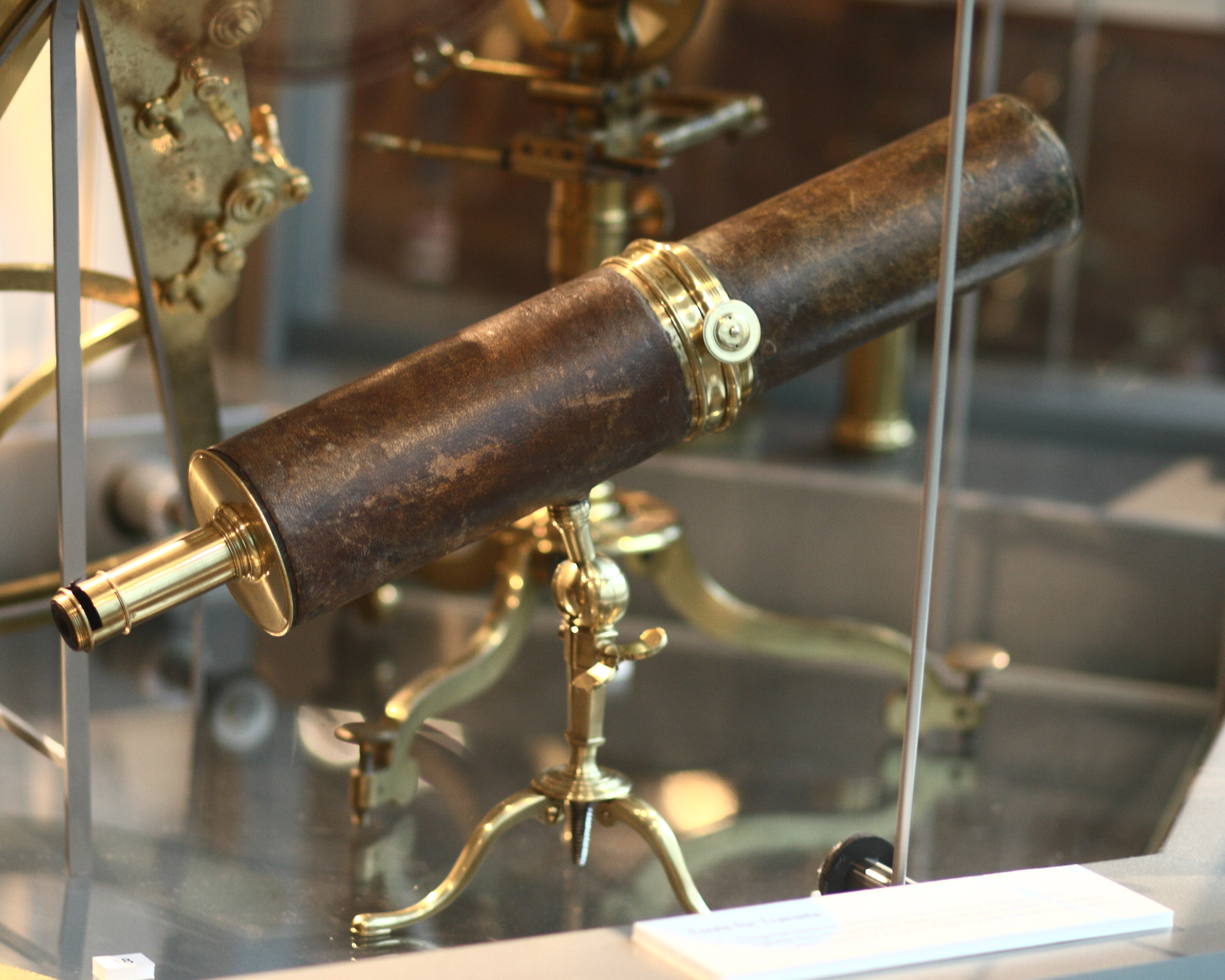 A Gregorian telescope of English manufacture circa 1735, owned by John Winthrop, on display at the Putnam Gallery in the Harvard Science Center